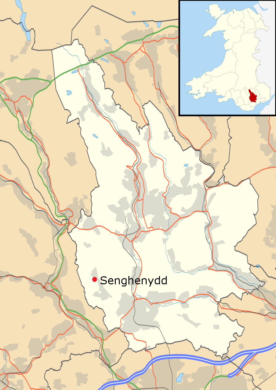 Location map of Senghenydd, Caerphilly, South Wales